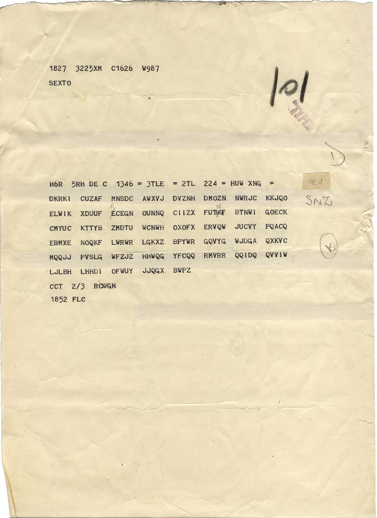 Typical intercept sheet as received at Bletchley Park